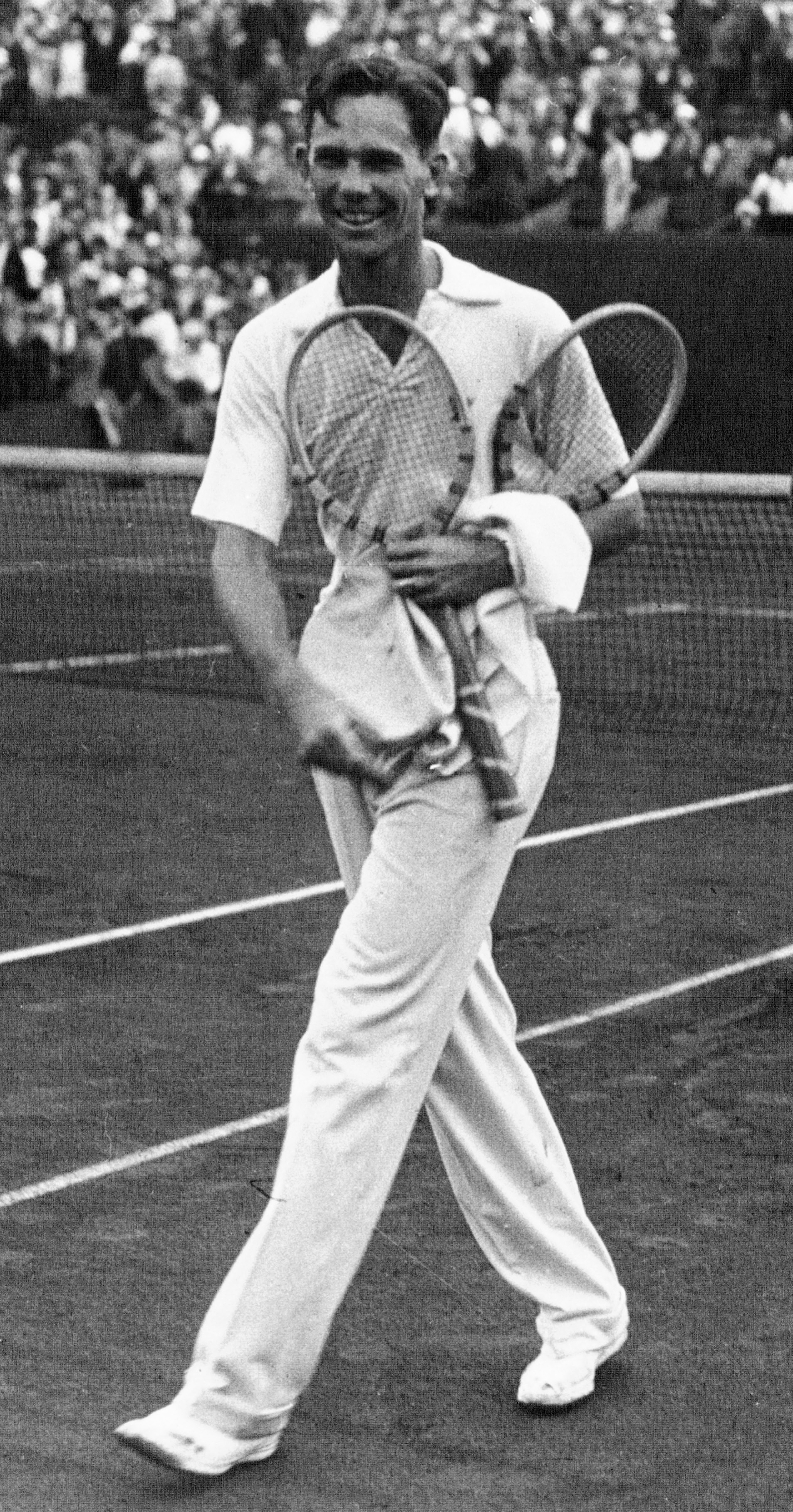 Ellsworth Vines during the Davis Cup match against Cochet